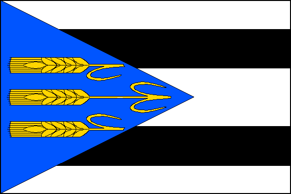 Municipal flag of Choteč village, Pardubice District, Czech Republic.